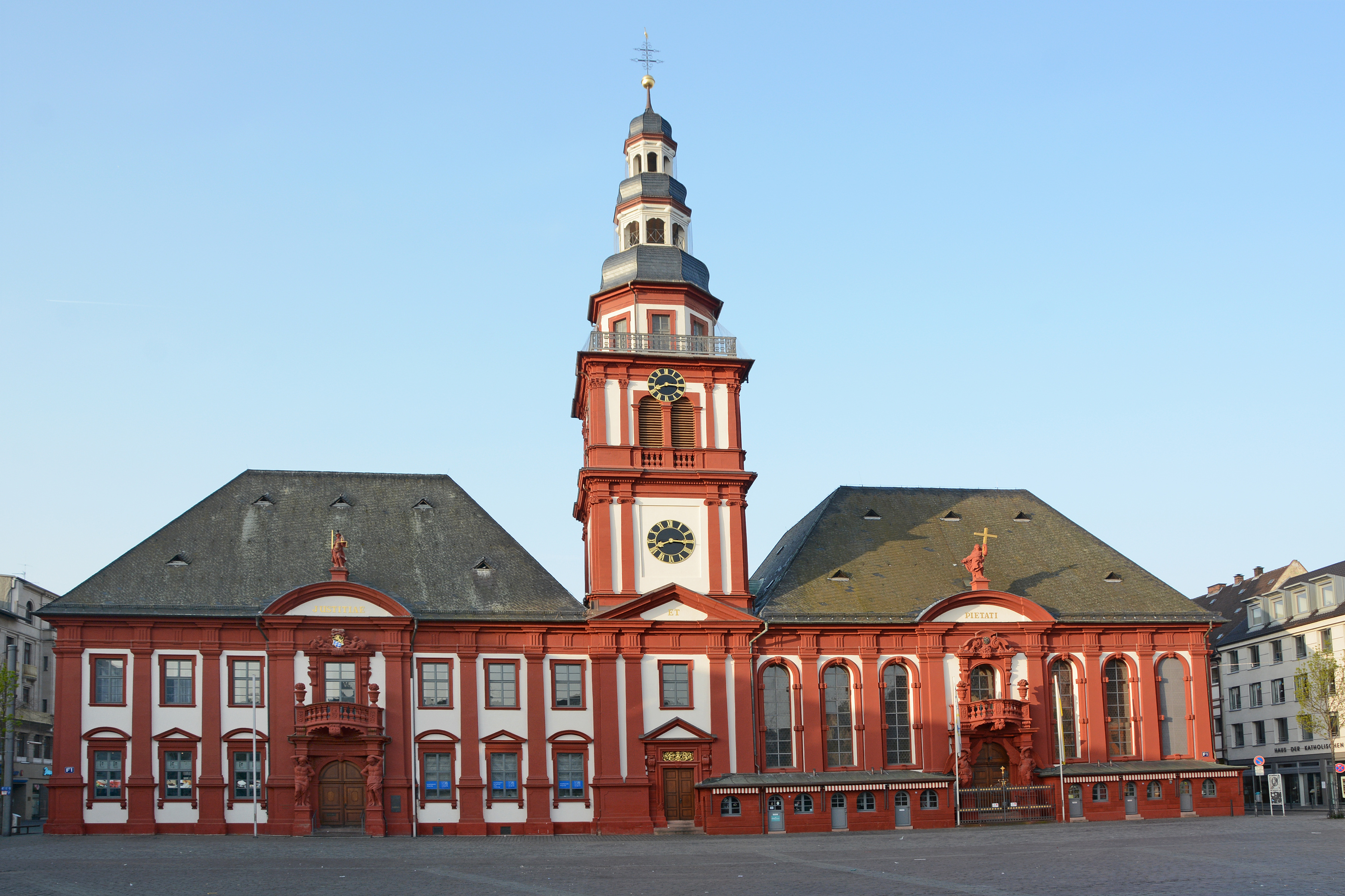 Old town hall and St. Sebastian church, market place, Mannheim, Germany